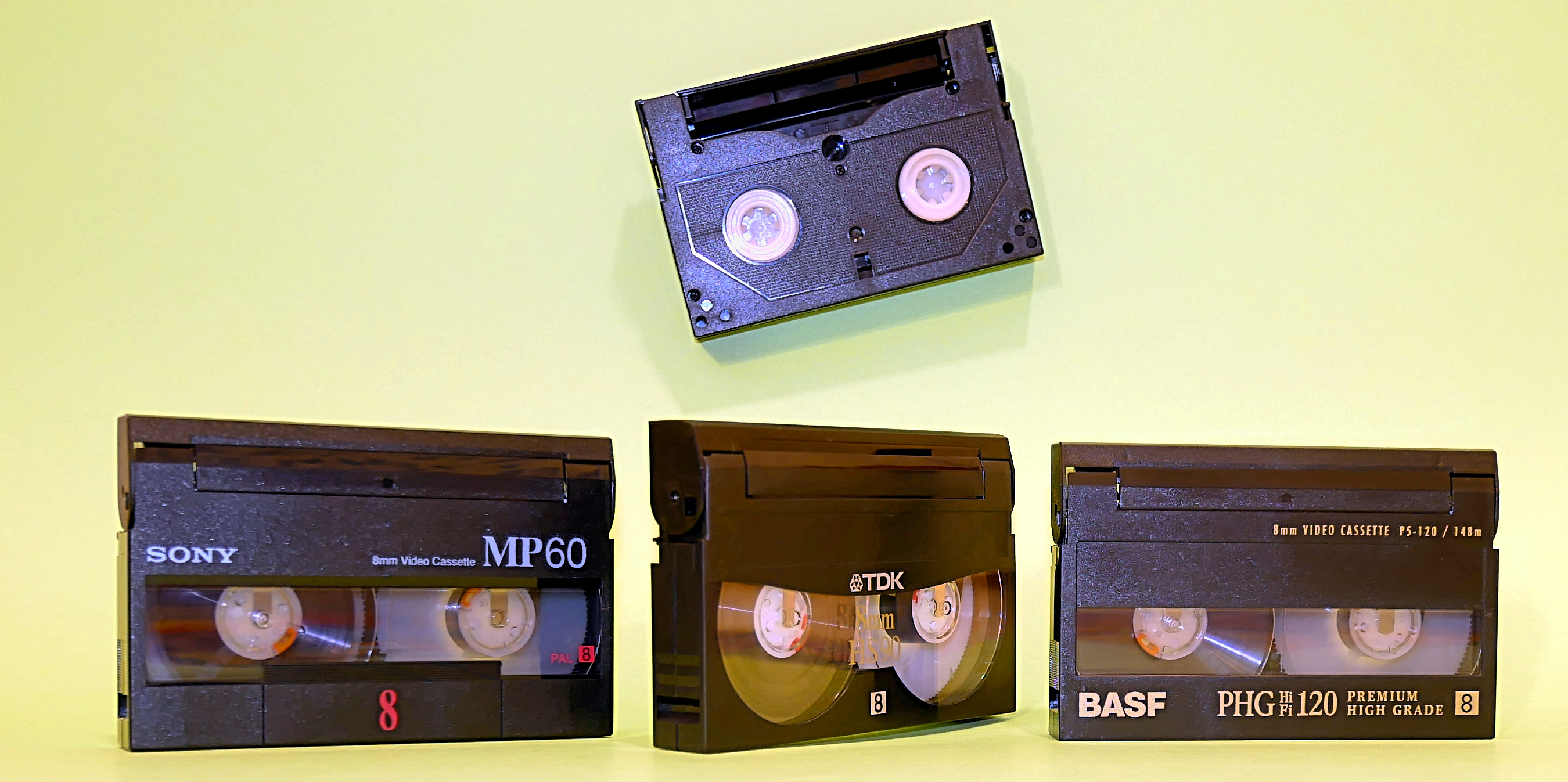 Video tapes for Video 8 camcorders. Sony 60 minute tape, TDK 90 minute tape, BASF 120 minute tape. Rear side of the cassette lies above.